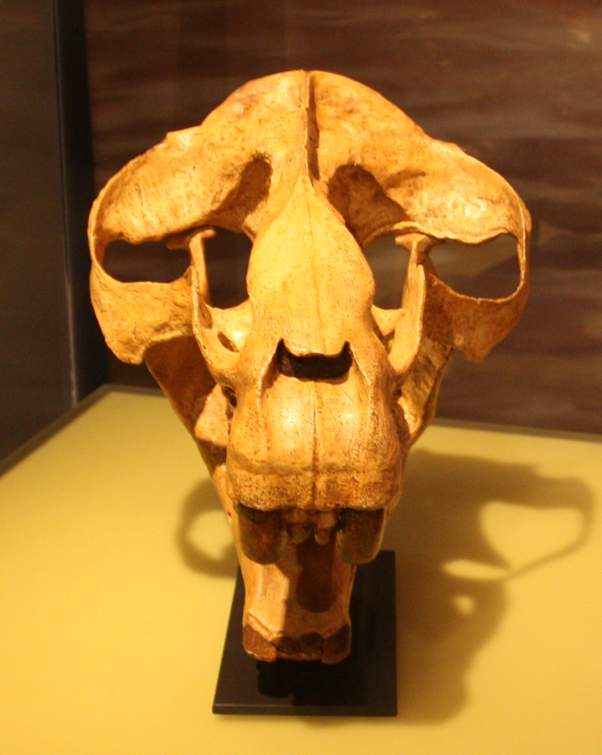 Skull of Moeritherium lysoni in anterior views at the Mammoths: Giants of the Ice Age exhibit at the Royal BC Museum, Victoria.